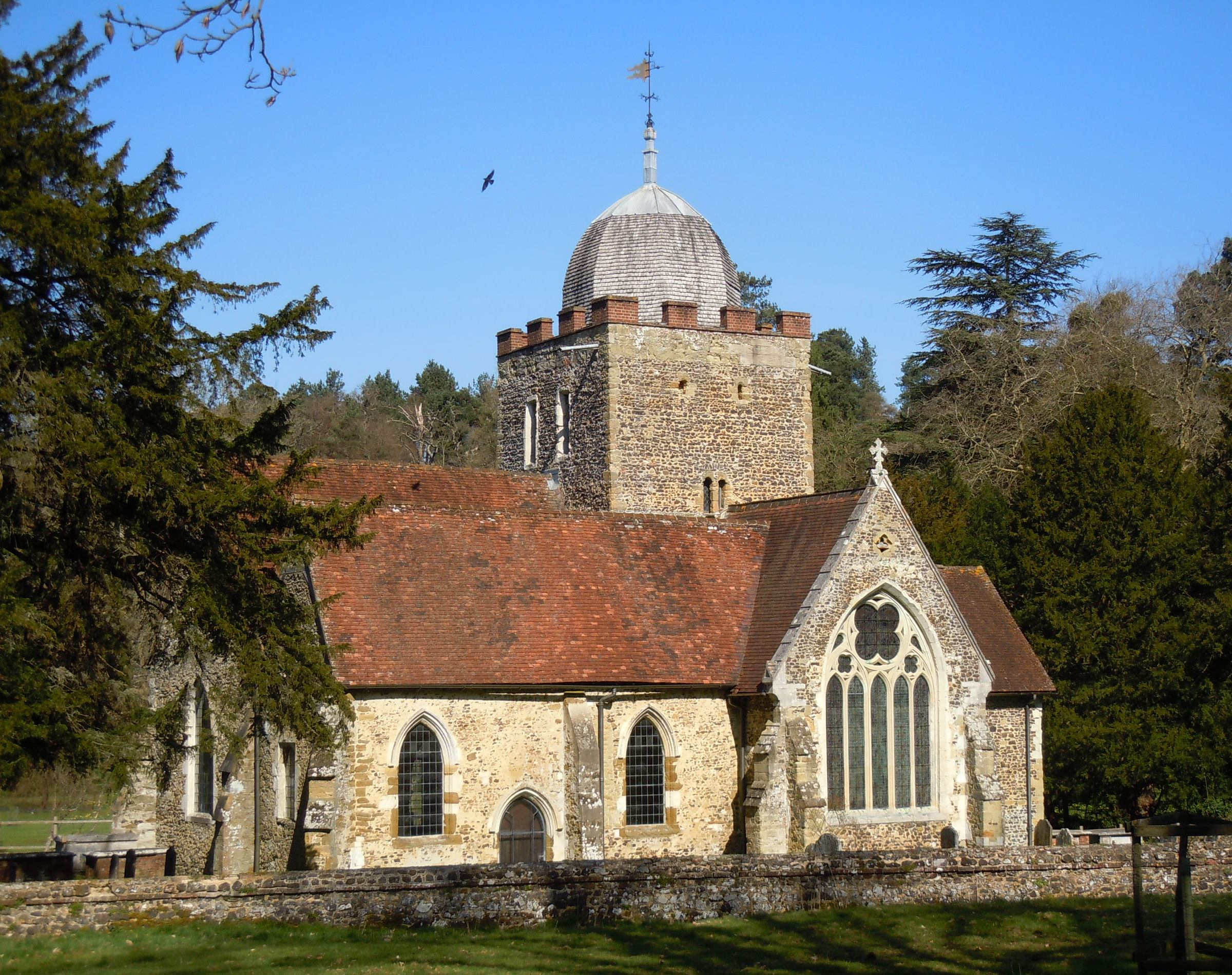 Former St Peter and St Paul's Church, Albury Park, Albury, Borough of Guildford, Surrey, England. Superseded in the mid-19th century by a new church in the centre of Albury village. This church is now in the care of the Churches Conservation Trust.